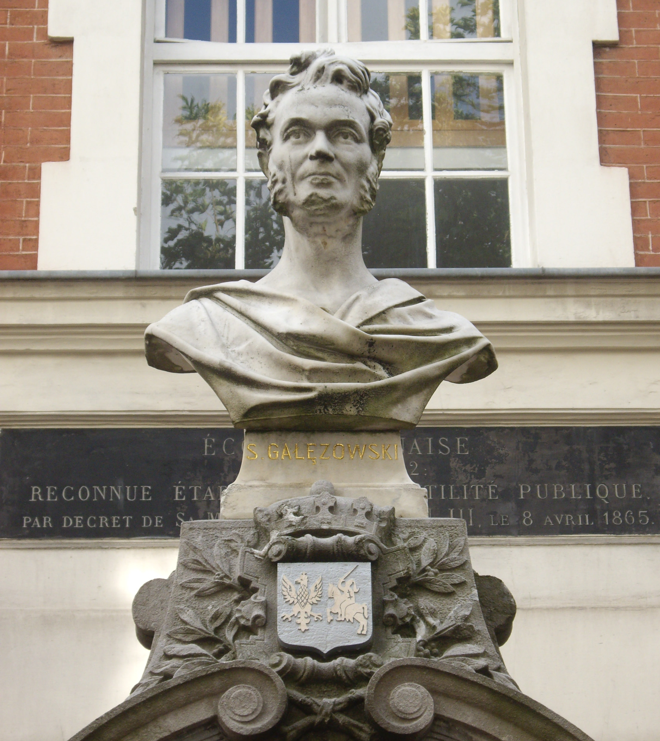 Statue of Seweryn Gałęzowski (1801-1878) by Cyprian Godebski (1835-1909) at the Polish School of Paris.